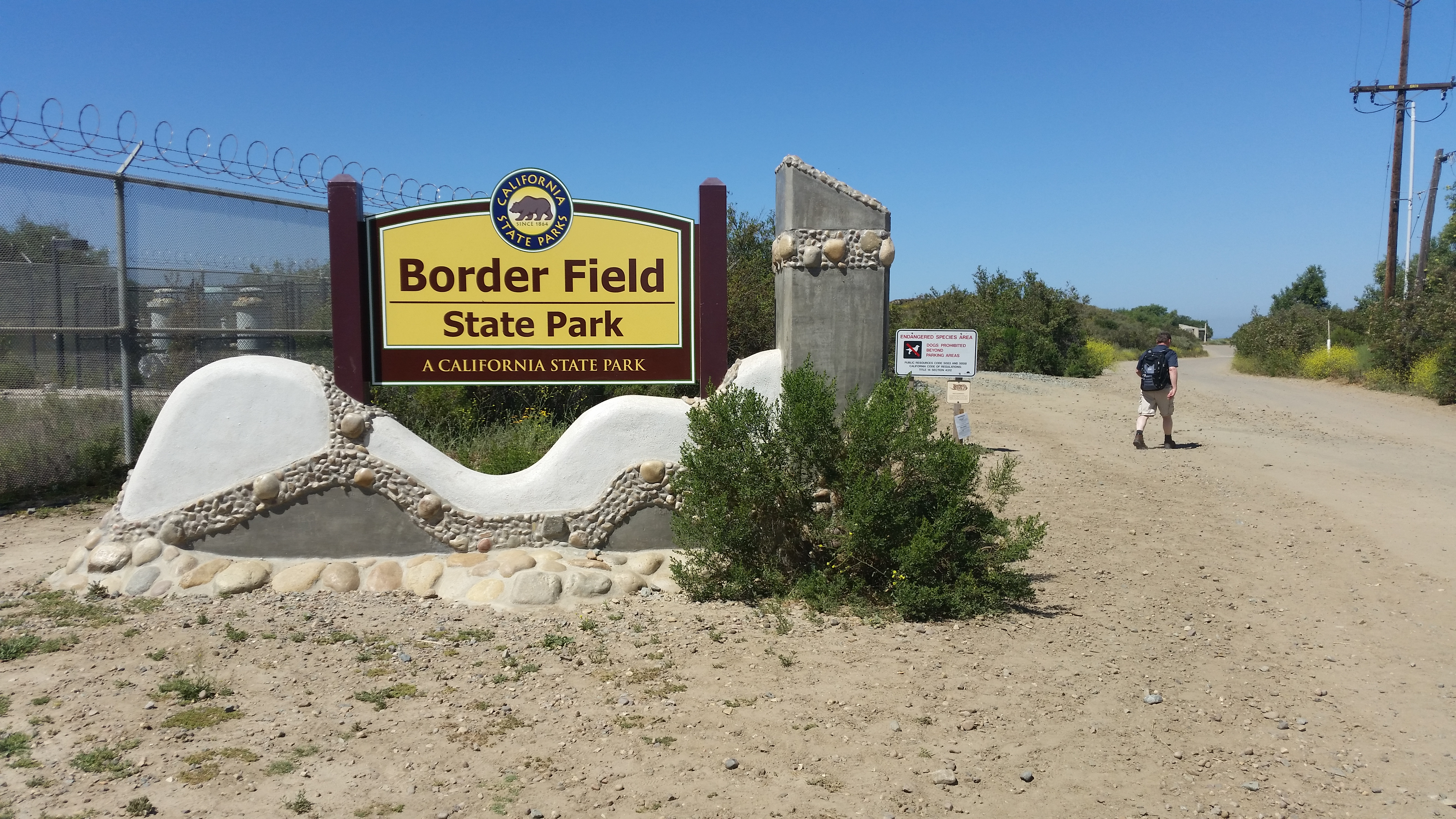 Border Field State Park sign north of Goat Canyon